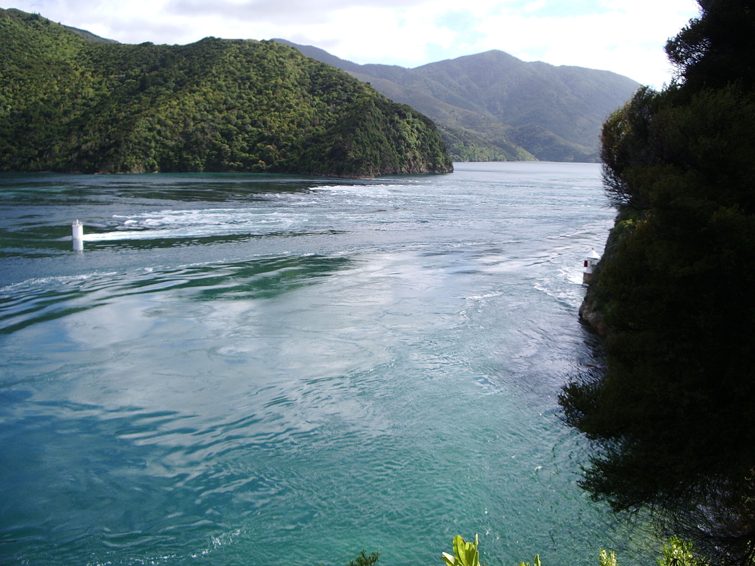 image of French Pass from the SW during flow to the NE